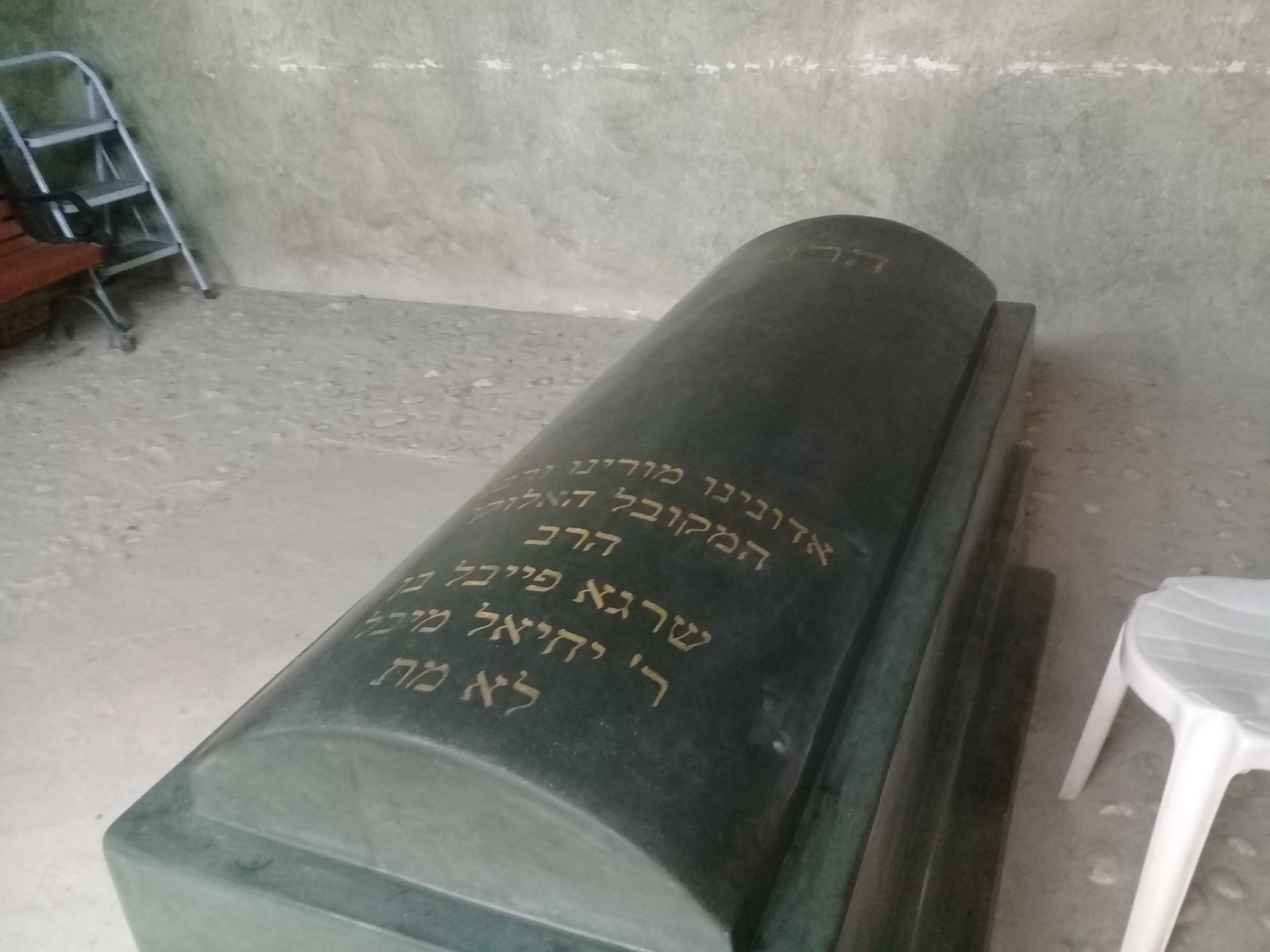 Rabbi Berg's grave in the Tzfat Jewish Cemetery